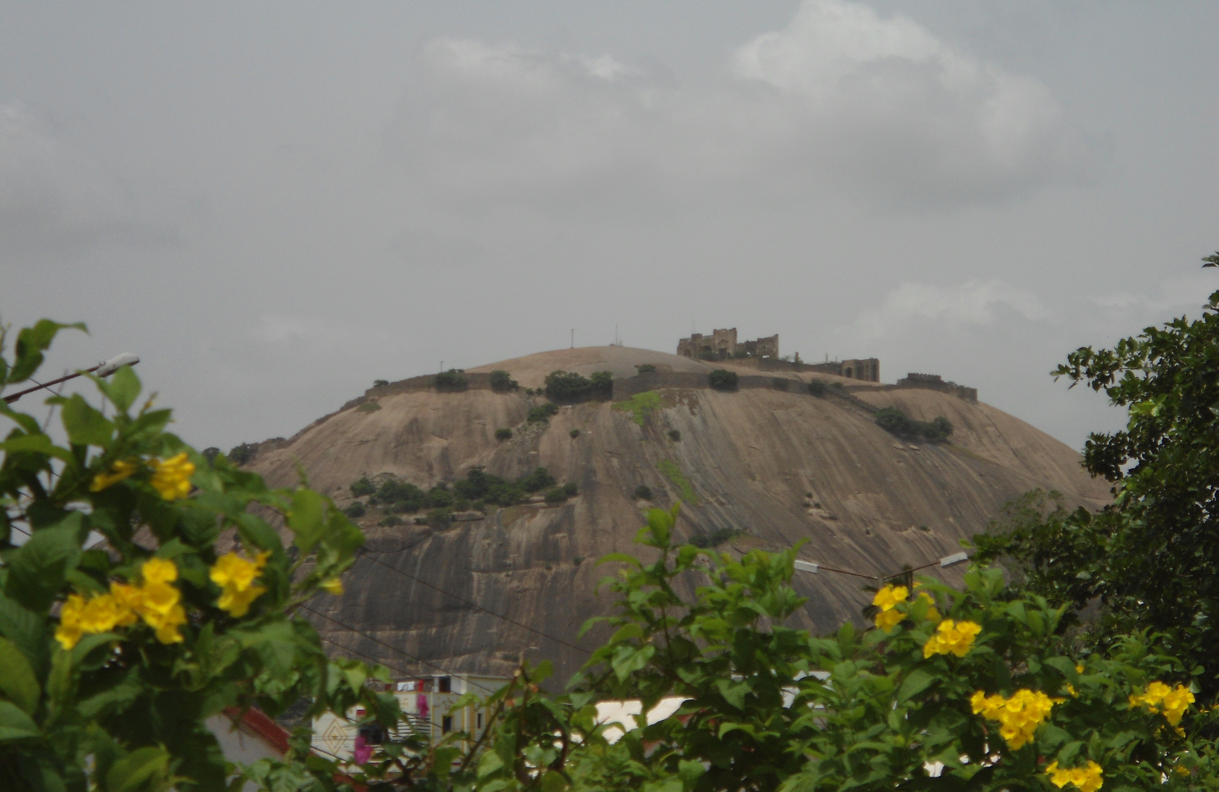 Remote view of Bhongir Fort from outskirts of the town, Nalgonda district